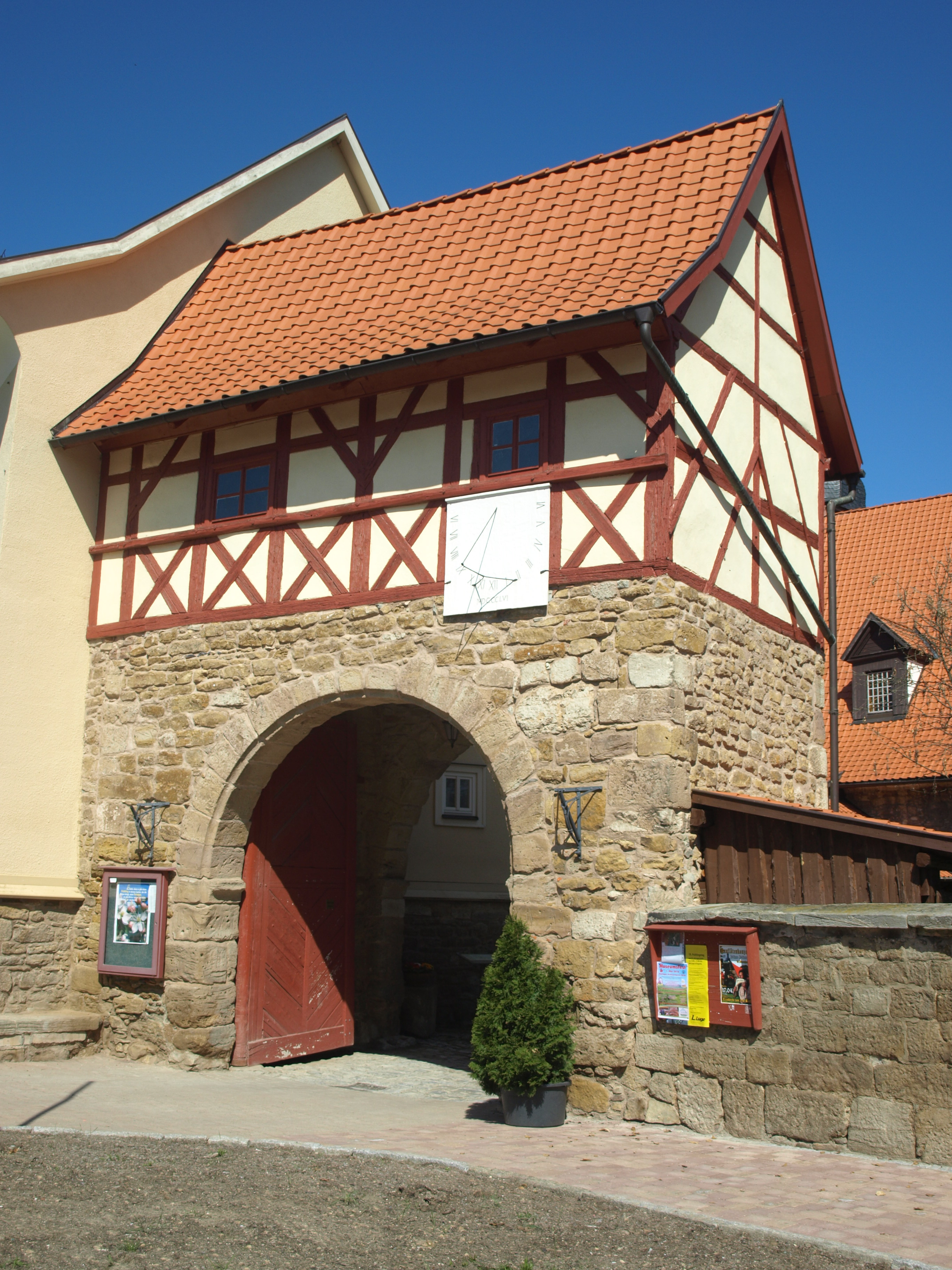 Gatehouse of the church in Dornheim, Ilm-Kreis, Thuringia, Germany